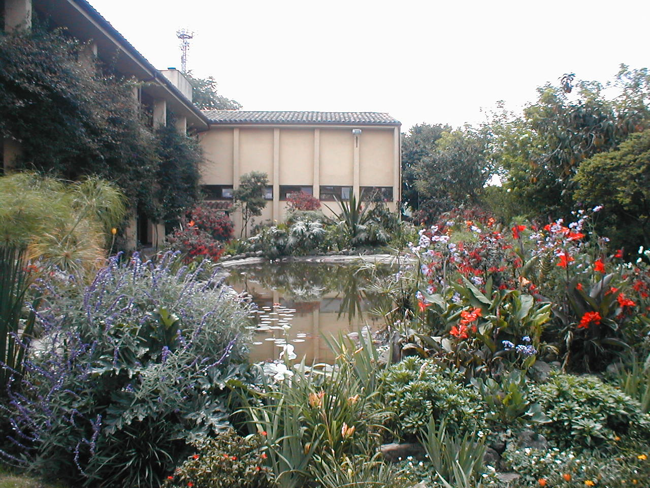 Small from the Colegio Helvetia